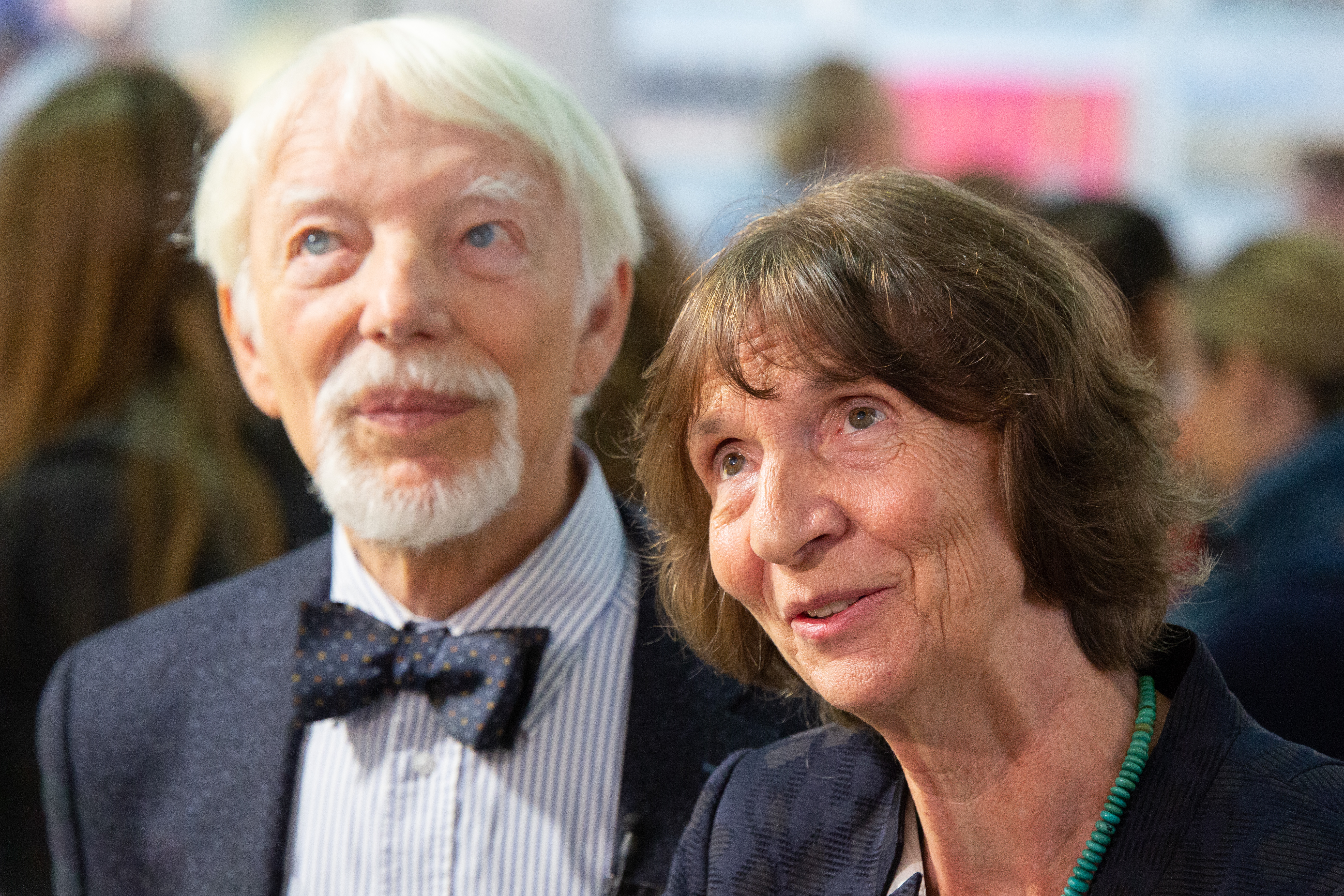 Jan and Aleida Assmann, the winners of the Peace Prize of the German Book Trade 2018